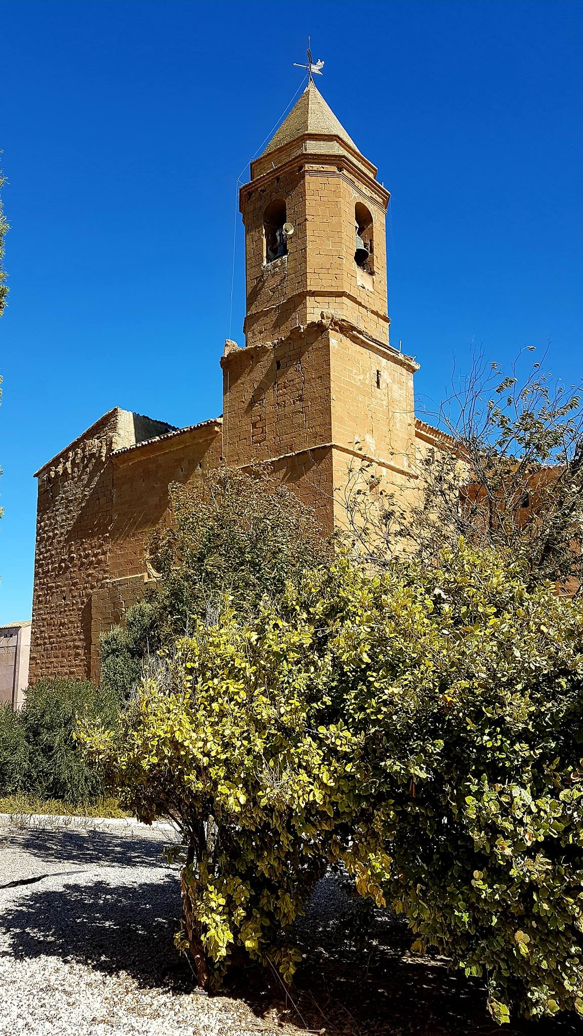 Tower of the parish church in Grañén, Spain